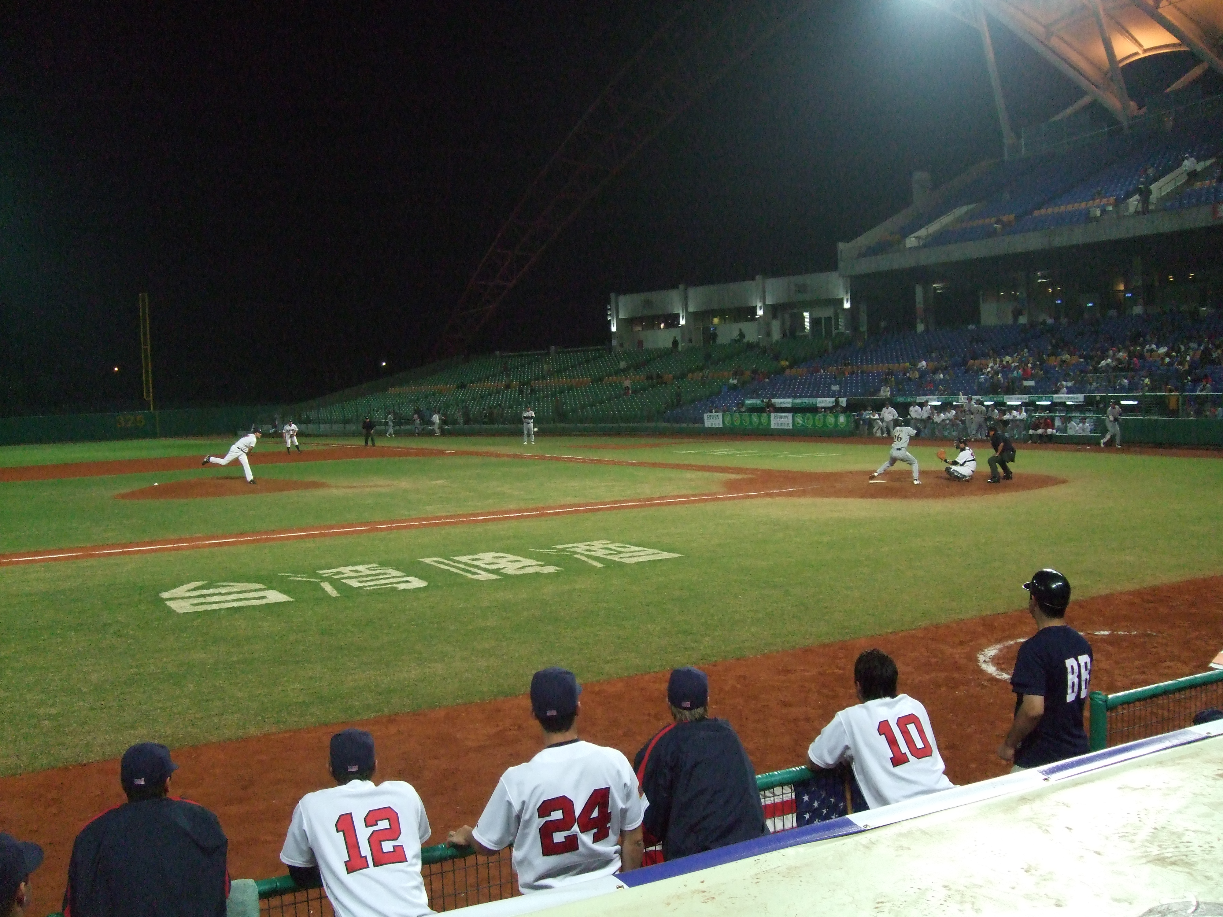 A pitch in the USA-JPN game at the 2007 Baseball World Cup